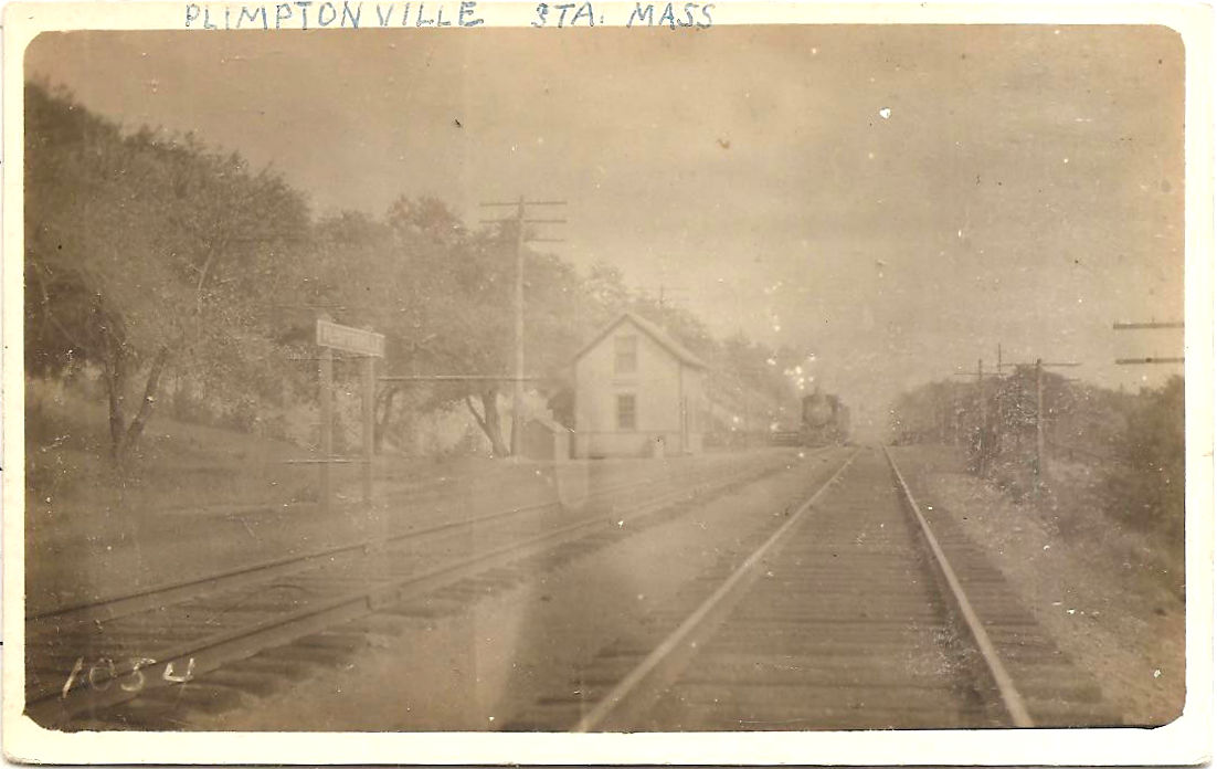 Early divided back postcard of Plimptonville station